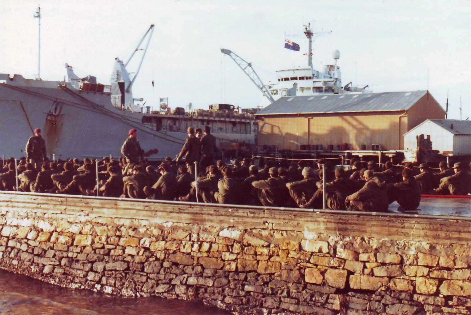 Argentine army POWs waiting repatriation Port Stanley 1982